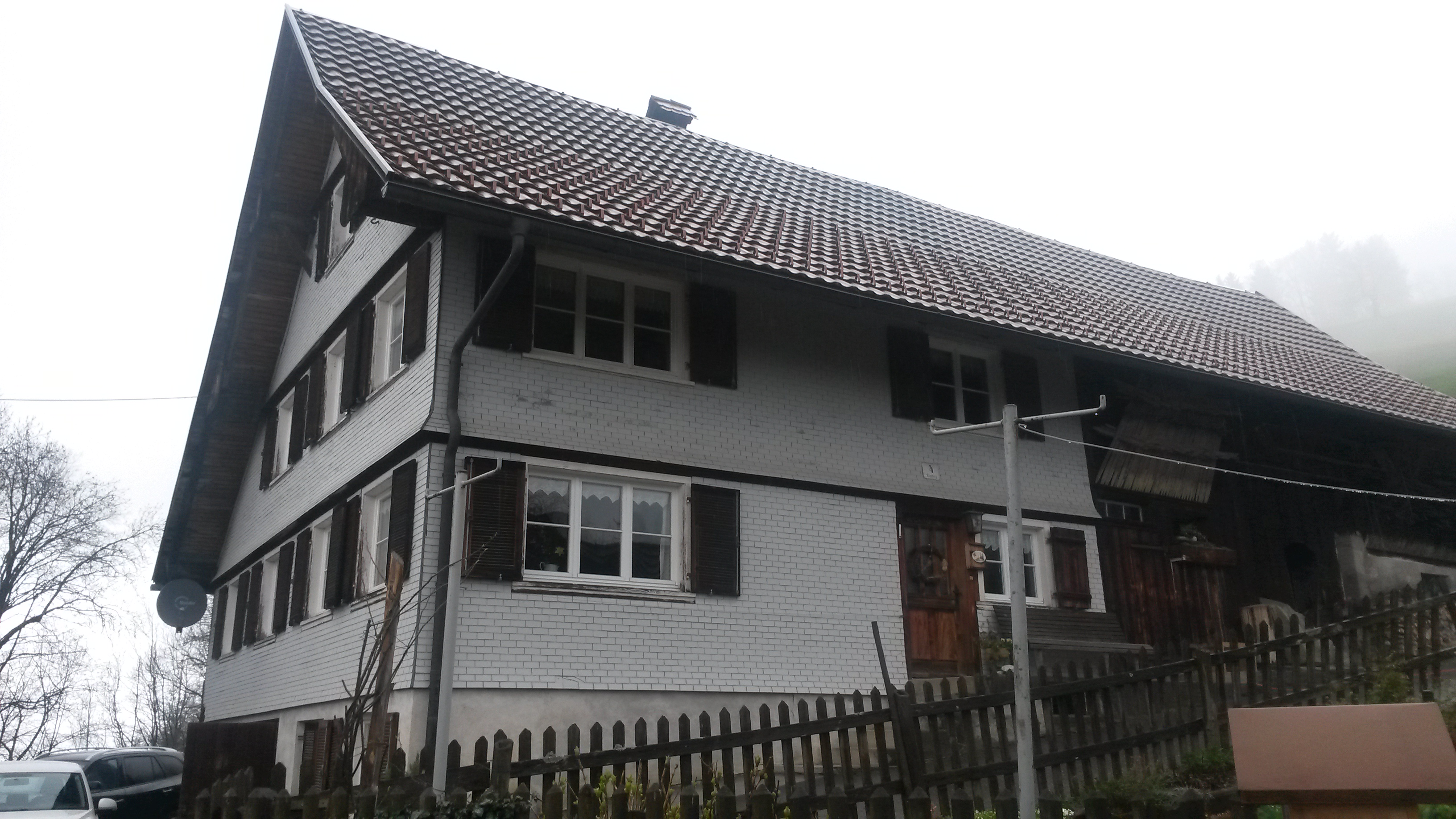 House Rhomberg no. 4 in the hamlet Rhomberg at Dornbirn in Vorarlberg, Austria.